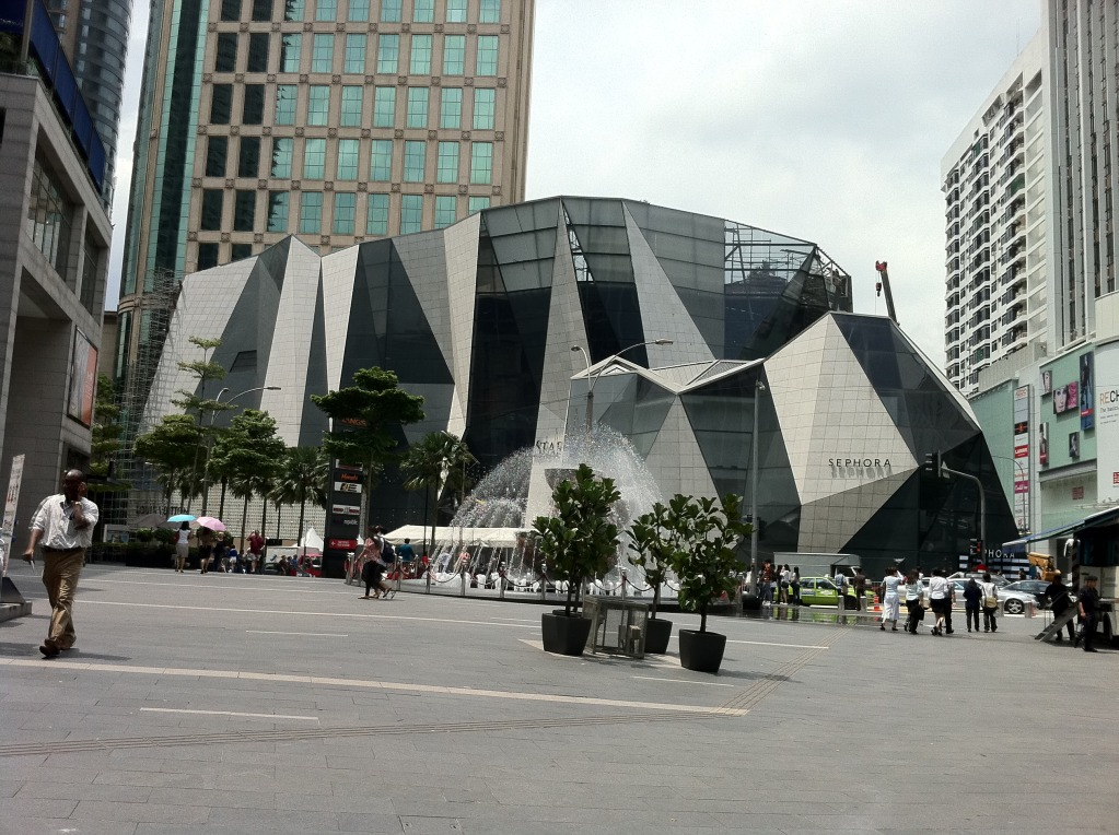 Exterior facade of Starhill Gallery with Sephora duplex flagship store.